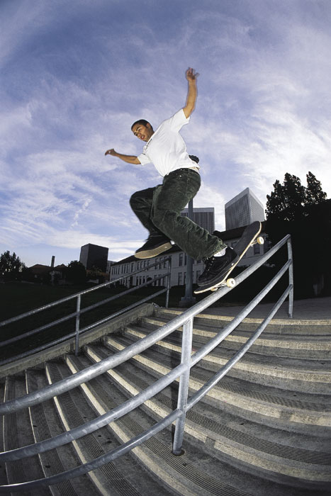 La Fandangla uberness coolness but HOLY CRAP thats insane!